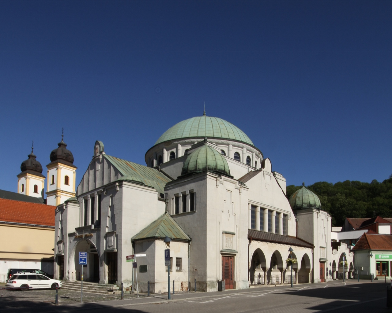 Former synagogue in Štúrovo námestie, Trenčín, Slovakia, seen from west-northwest, with the twin towers of the Piarist church on the left